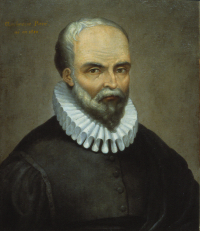 Ambroise Pare, father of military surgery. Oil painting. Selected by Mike.